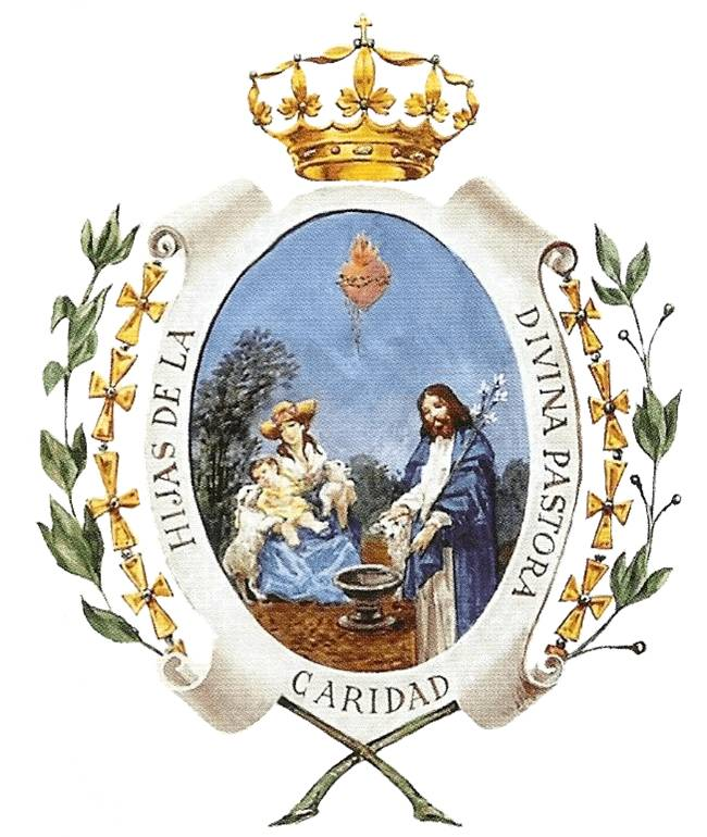 Emblem of the Instituto Calasancio de Hijas de la Divina Pastora, religious congregation for girls education, founded in 1885, painted for one of the schools